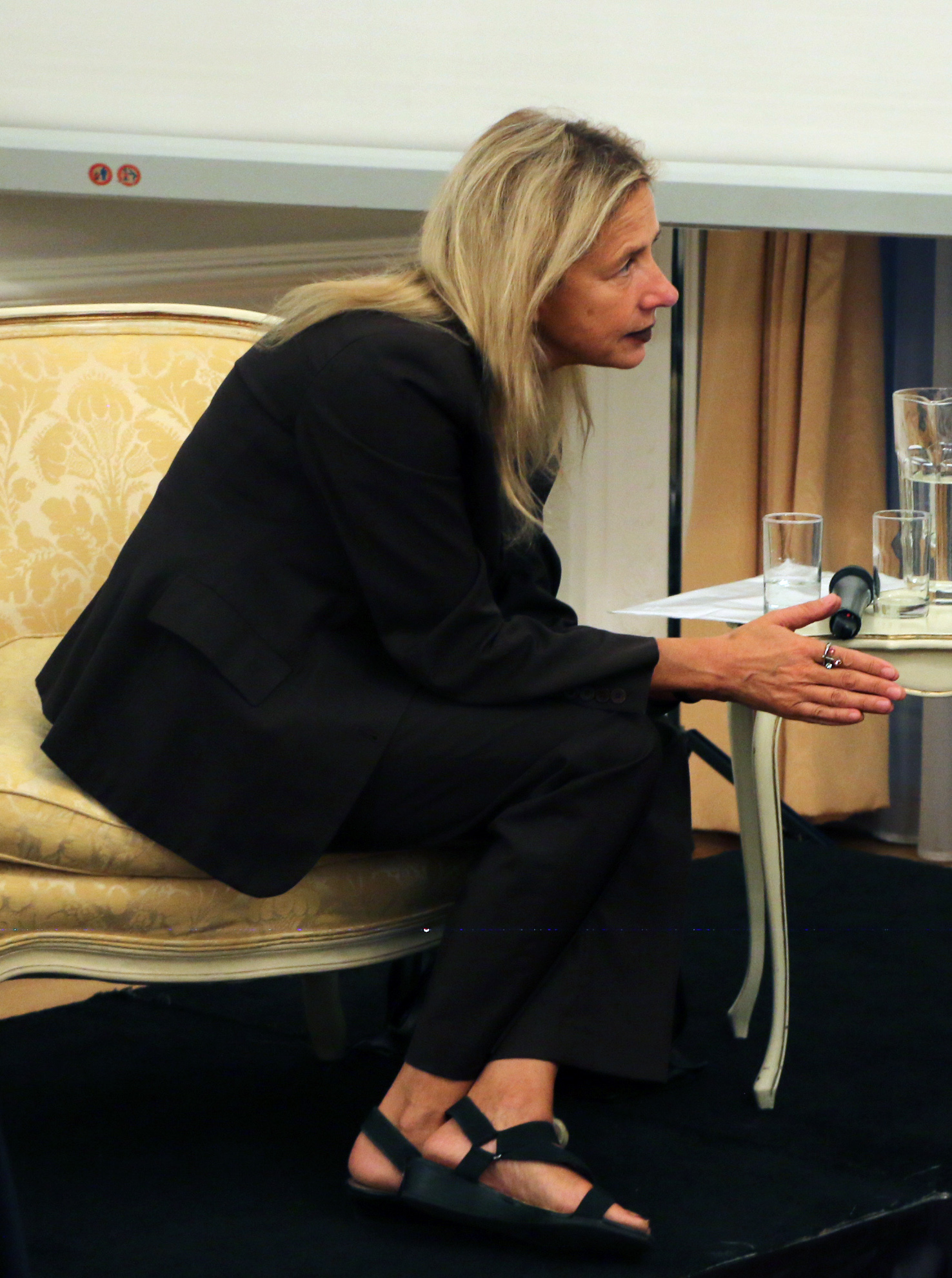 Embassy Talk: Thomas Ruff in conversation with Iwona Blazwick